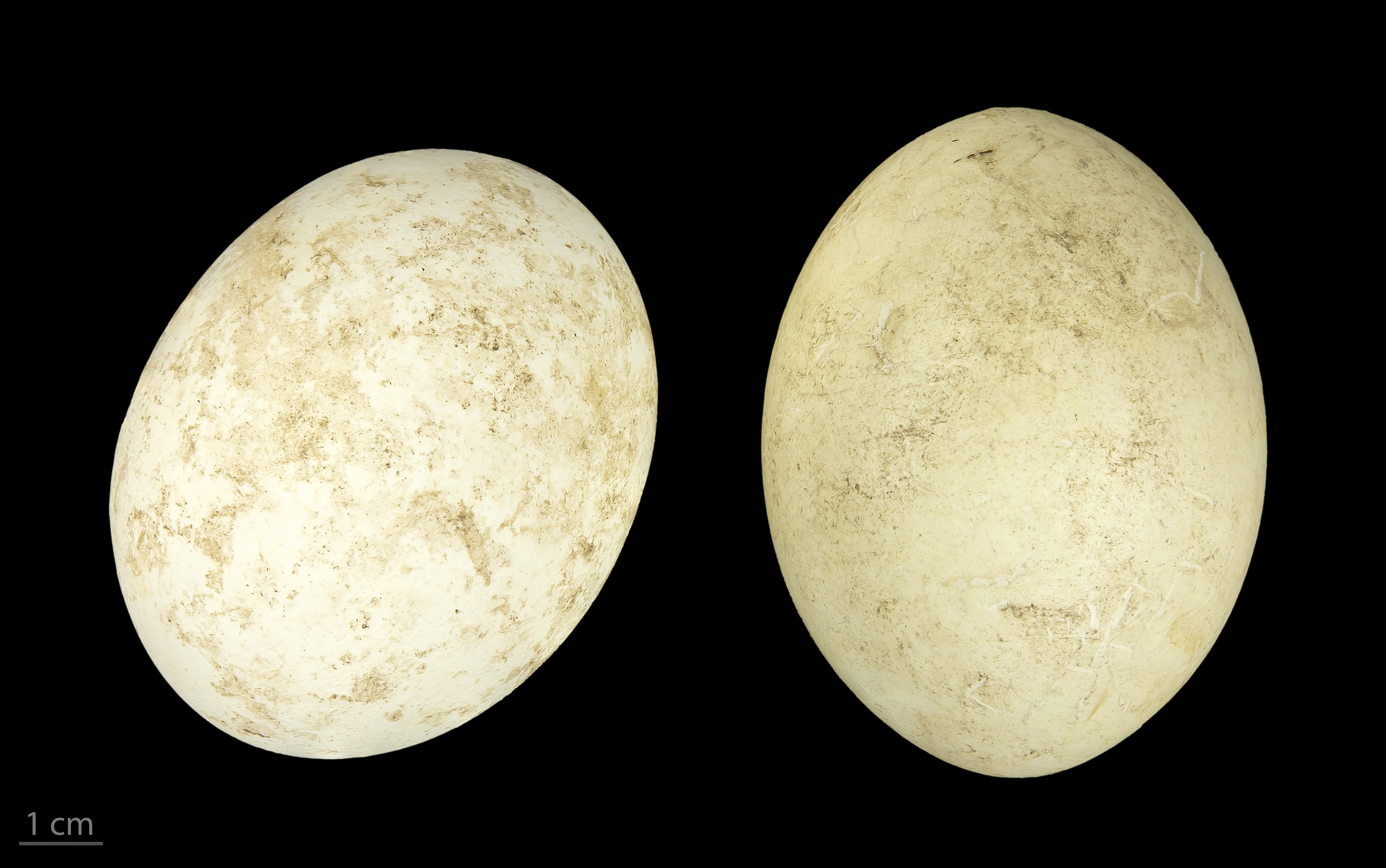 Egg of magpie goose Collection of Jacques Perrin de Brichambaut.